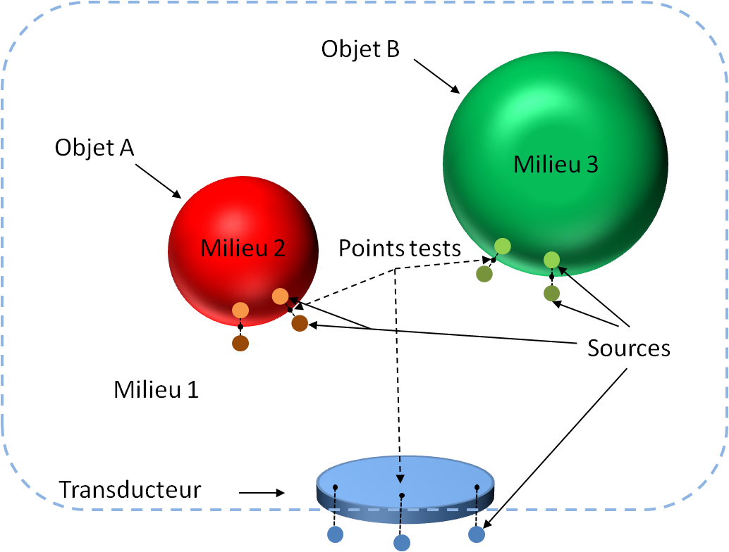 DPSM : Object, Points, Sources